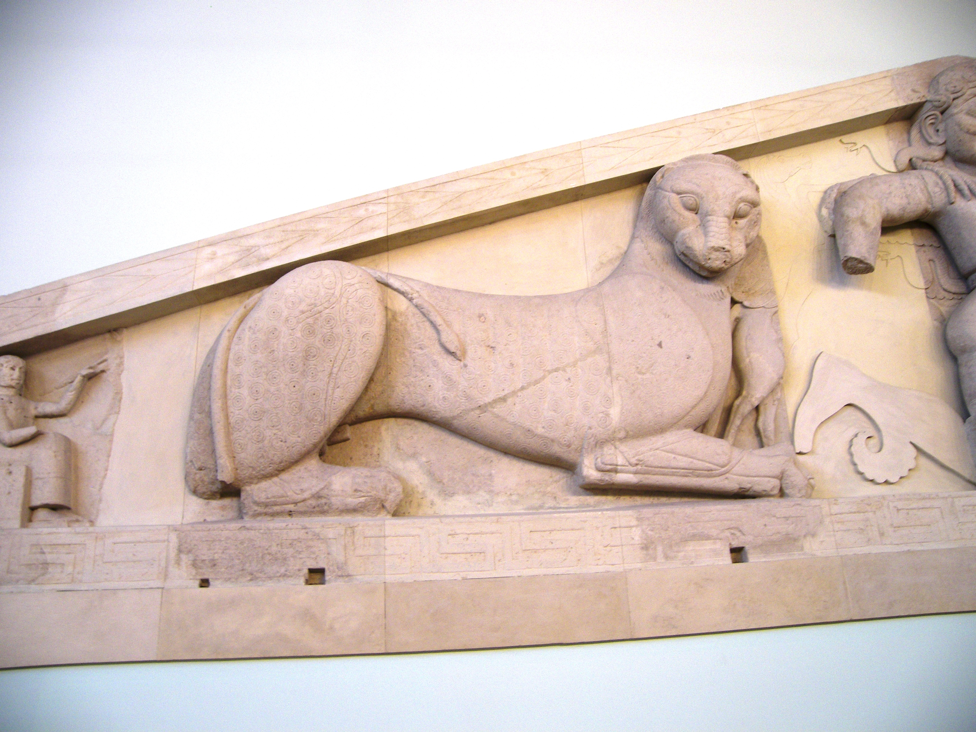 Please see filename